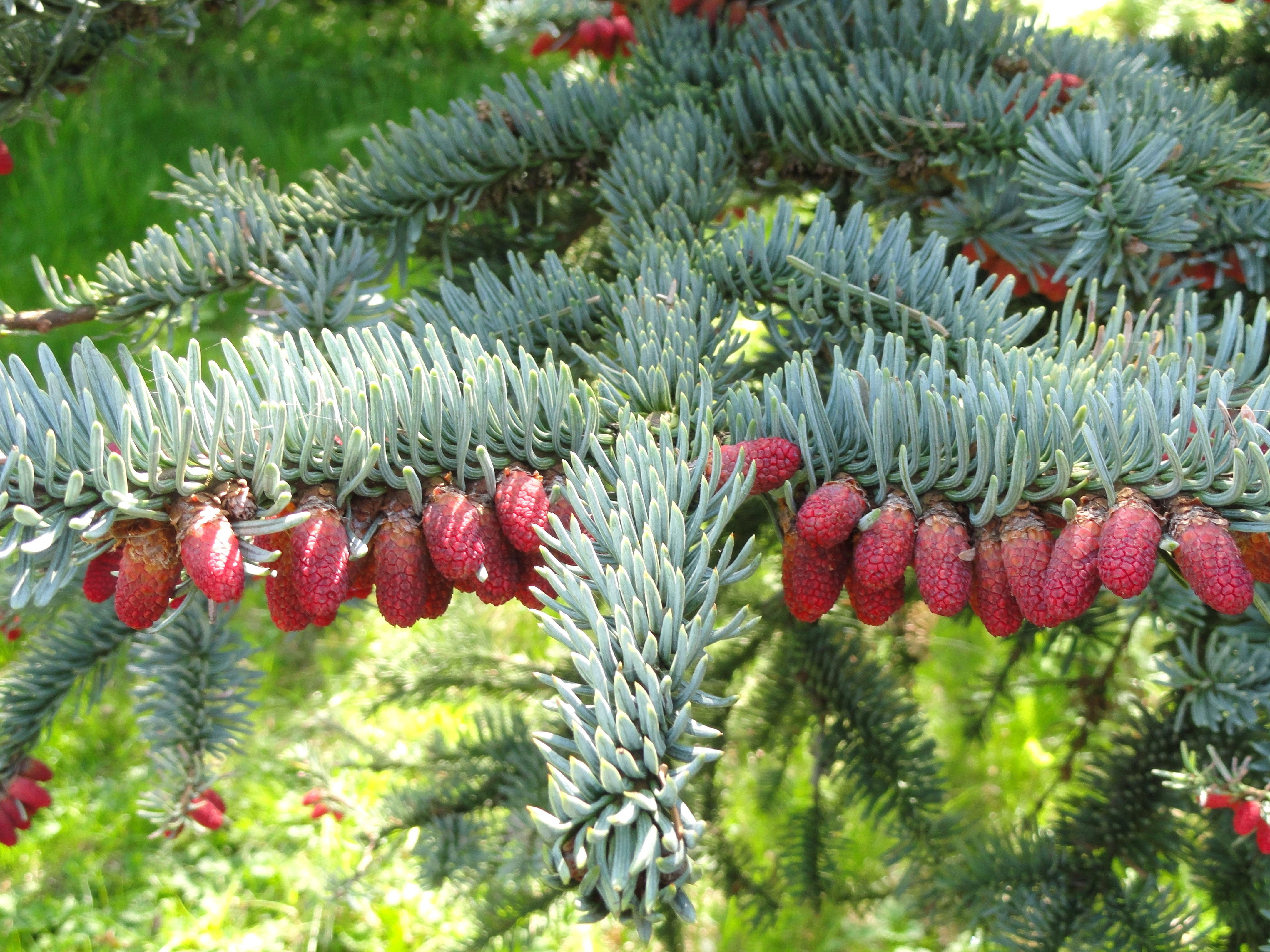 Botanical specimen in the University of Copenhagen Botanical Garden, Copenhagen, Denmark.